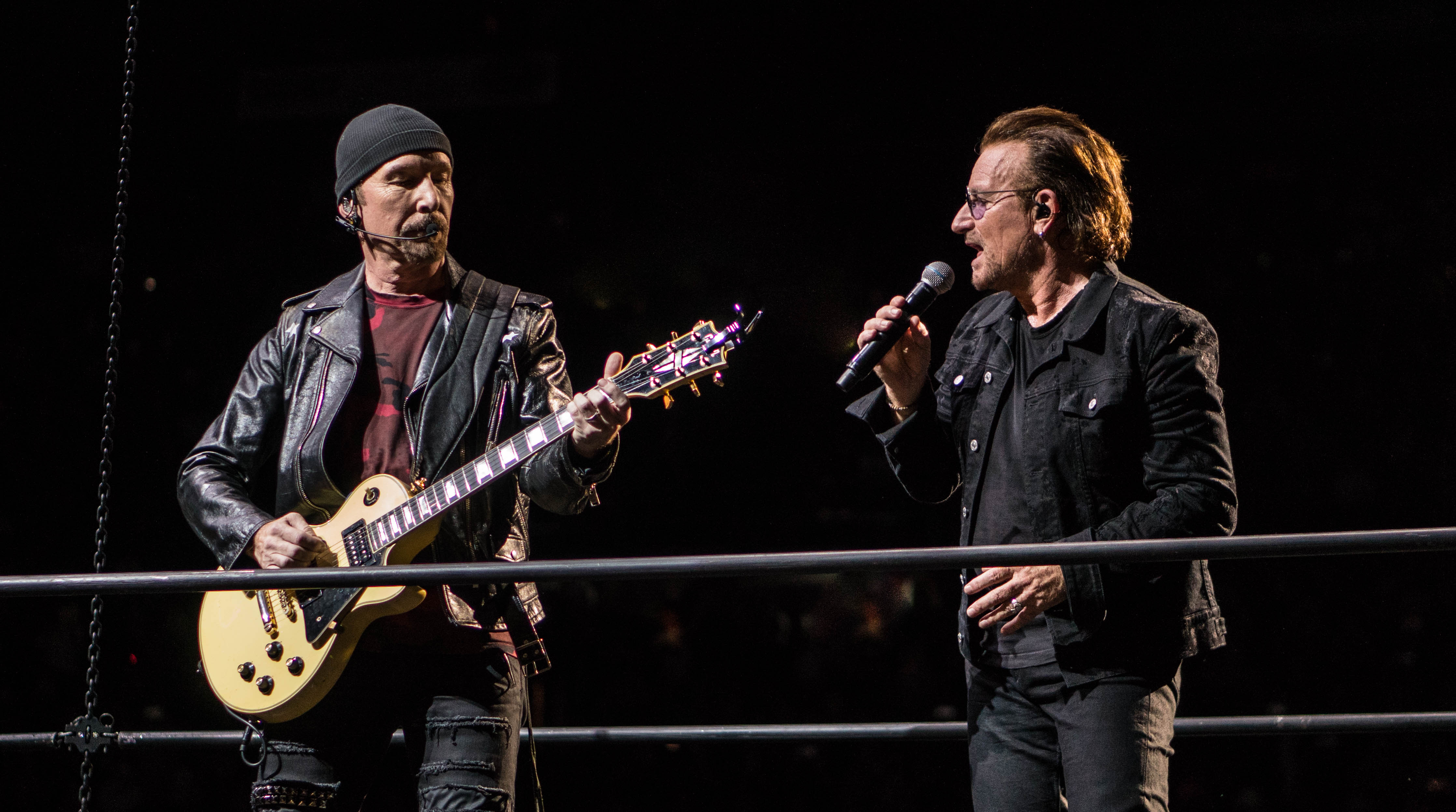 Taken for , this full set and thousands of other amazing U2 photos can be found on the biggest structured collection of high-res and high quality U2 photos online. Irish rock band U2 performing at Mediolanum Forum in Milan, Italy on October 11, 2018 during the band's Experience + Innocence Tour